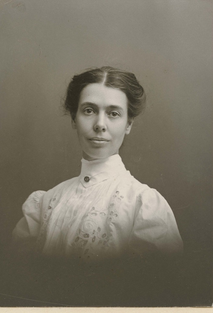 Louisa Burns, D.O., Sc.D. in 1907, a prominent researcher in osteopathic technique in the early 1900's.